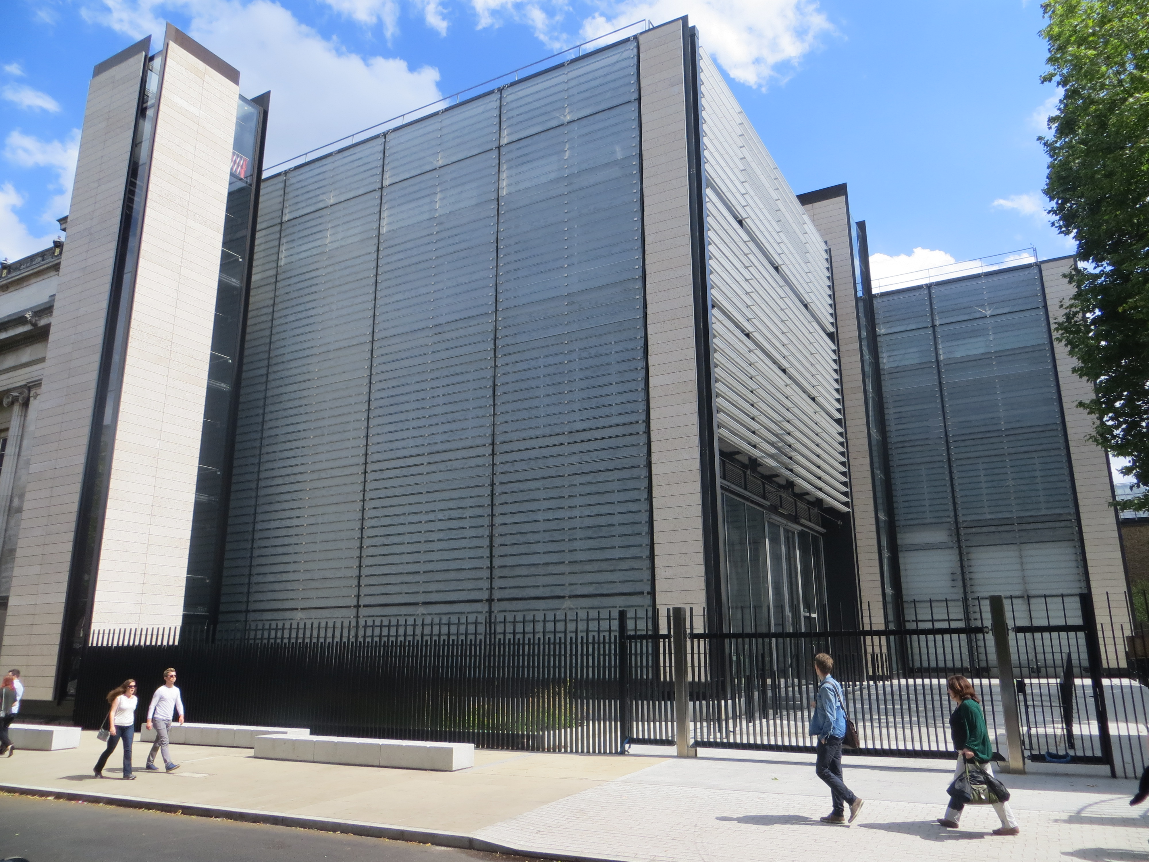 Street view of the British Museum World Conservation and Exhibitions Centre